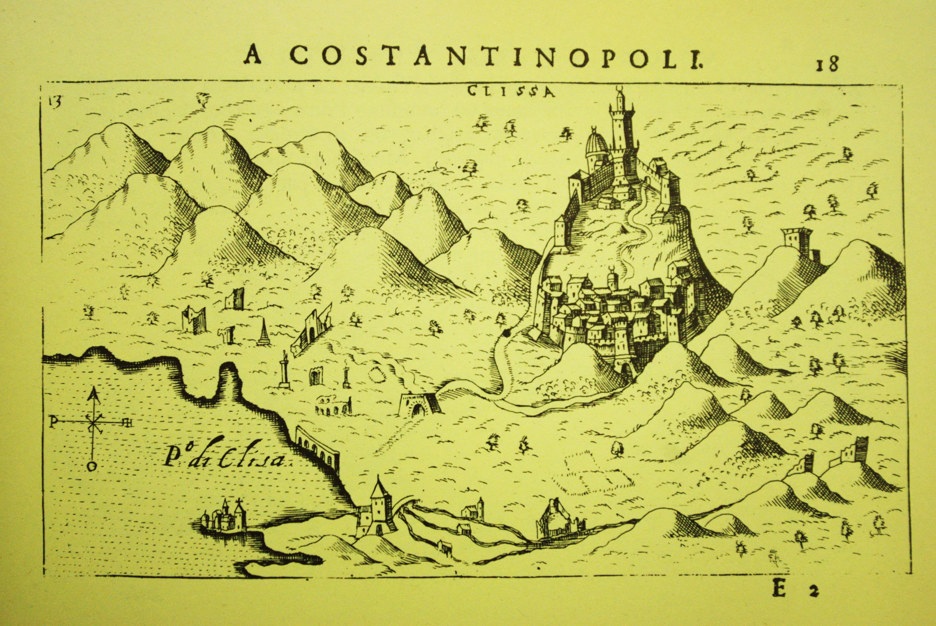 From the book